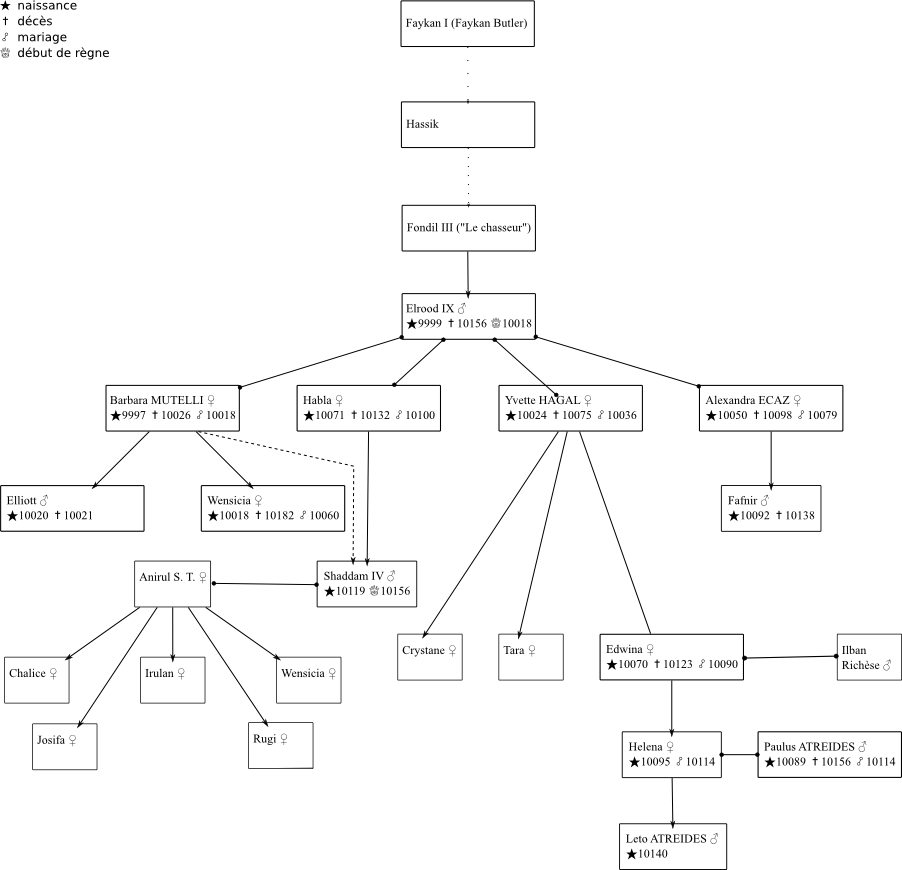 Family tree of the House of Corrino Legend French ★ naissance ✝ décès ☍ mariage ♕ début de règne English ★ Born ✝ Died ☍ Married ♕ Beginning of reign